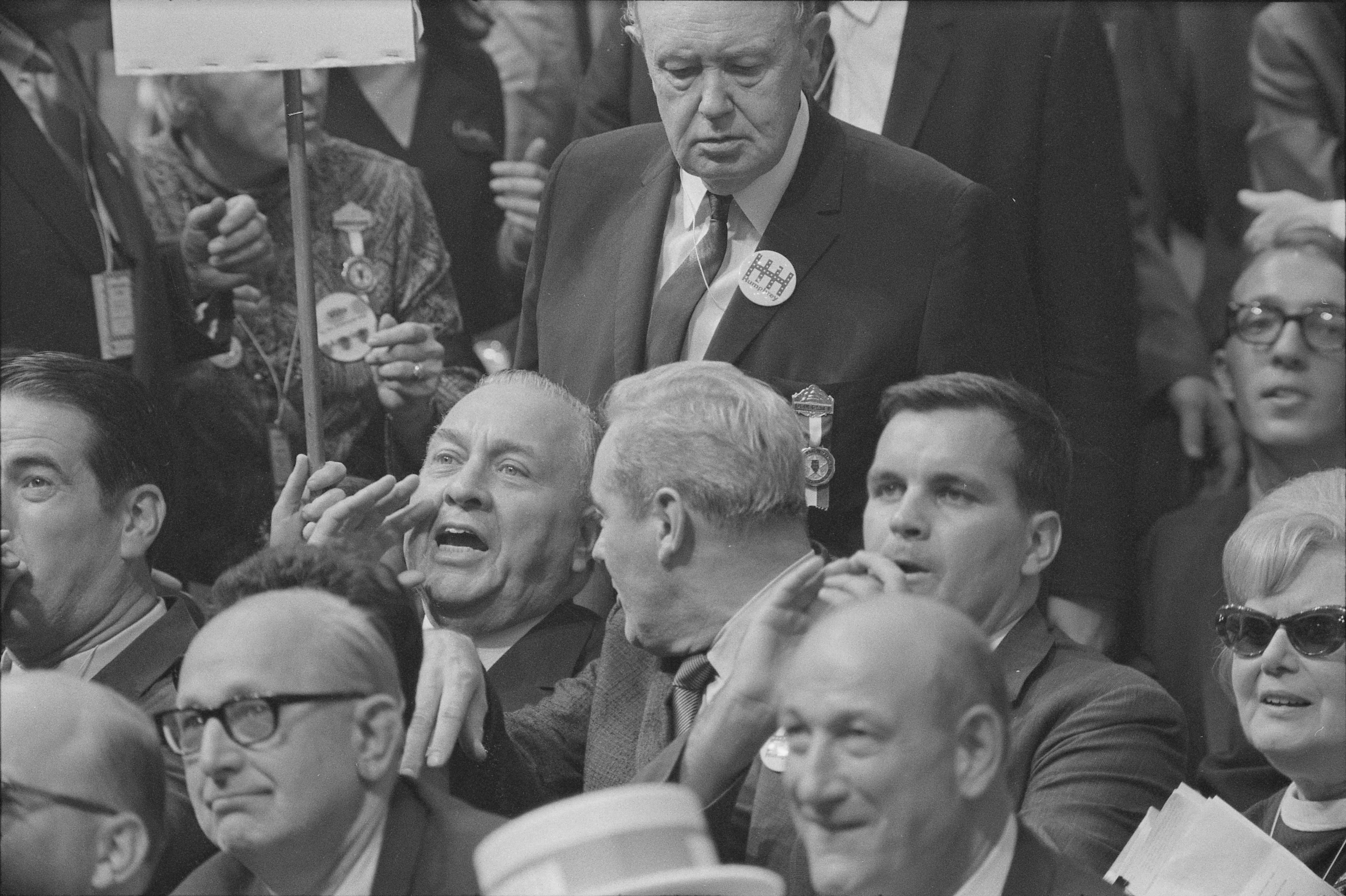 Illinois delegates at the Democratic National Convention of 1968, react to Senator Ribicoff's nominating speech in which he criticized the tactics of the Chicago police against anti-Vietnam war protesters